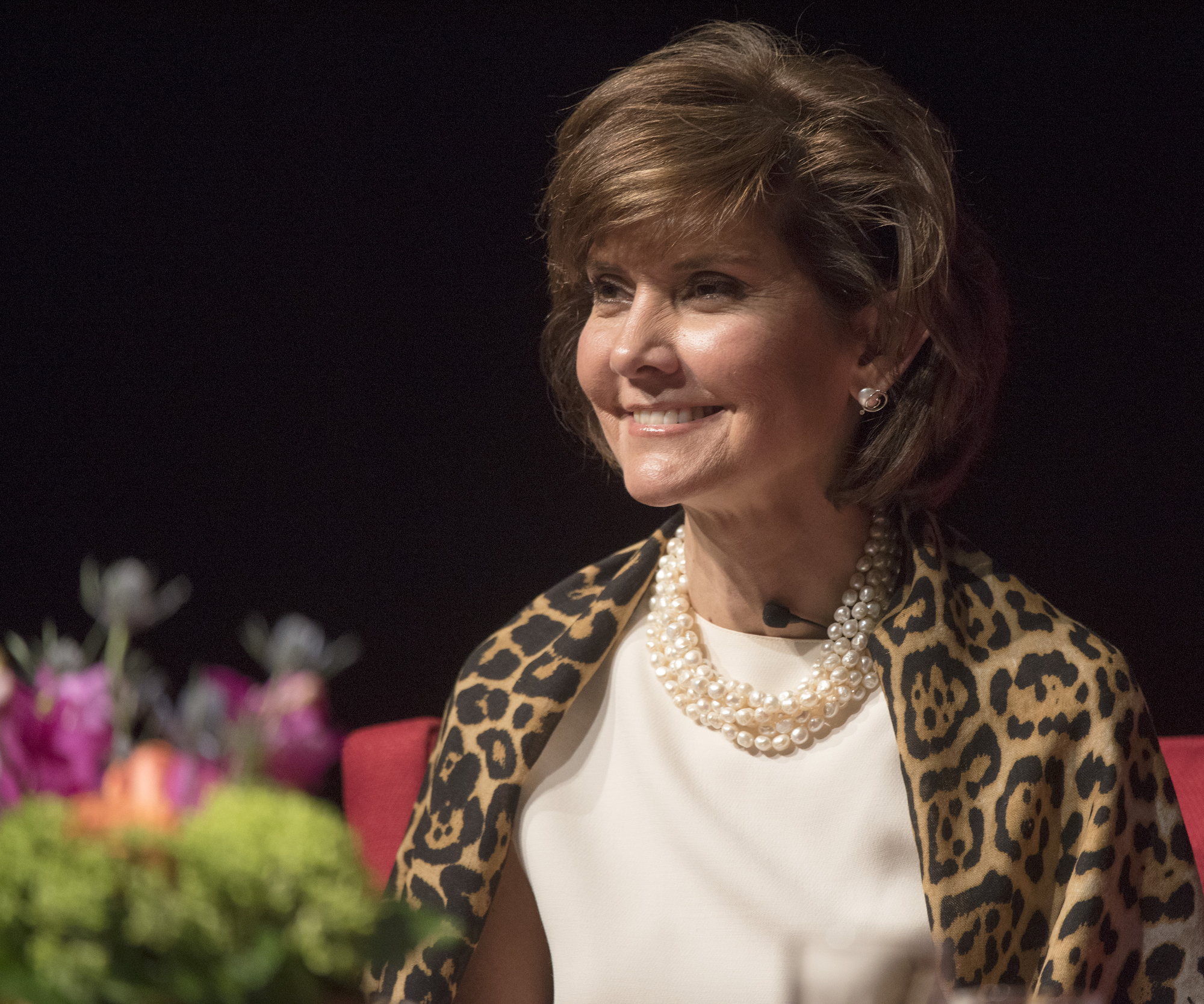 On Wednesday, Jan. 24th, 2018, the LBJ Presidential Library presented “An Evening With Lea Berman and Jeremy Bernard.” Both are former White House Social Secretaries. They discussed their book, Treating People Well: The Extraordinary Power of Civility at Work and in Life. The conversation was moderated by Ambassador Capricia Marshall, the former Chief of Protocol of the United States under President Barack Obama (2009-2013), a position that carries the rank of Ambassador. Marshall previously served as White House Social Secretary for President Bill Clinton (1997-2001). Lea Berman was social secretary for President George W. Bush and first lady Laura Bush, and Jeremy Bernard was social secretary for President Obama and first lady Michelle Obama.